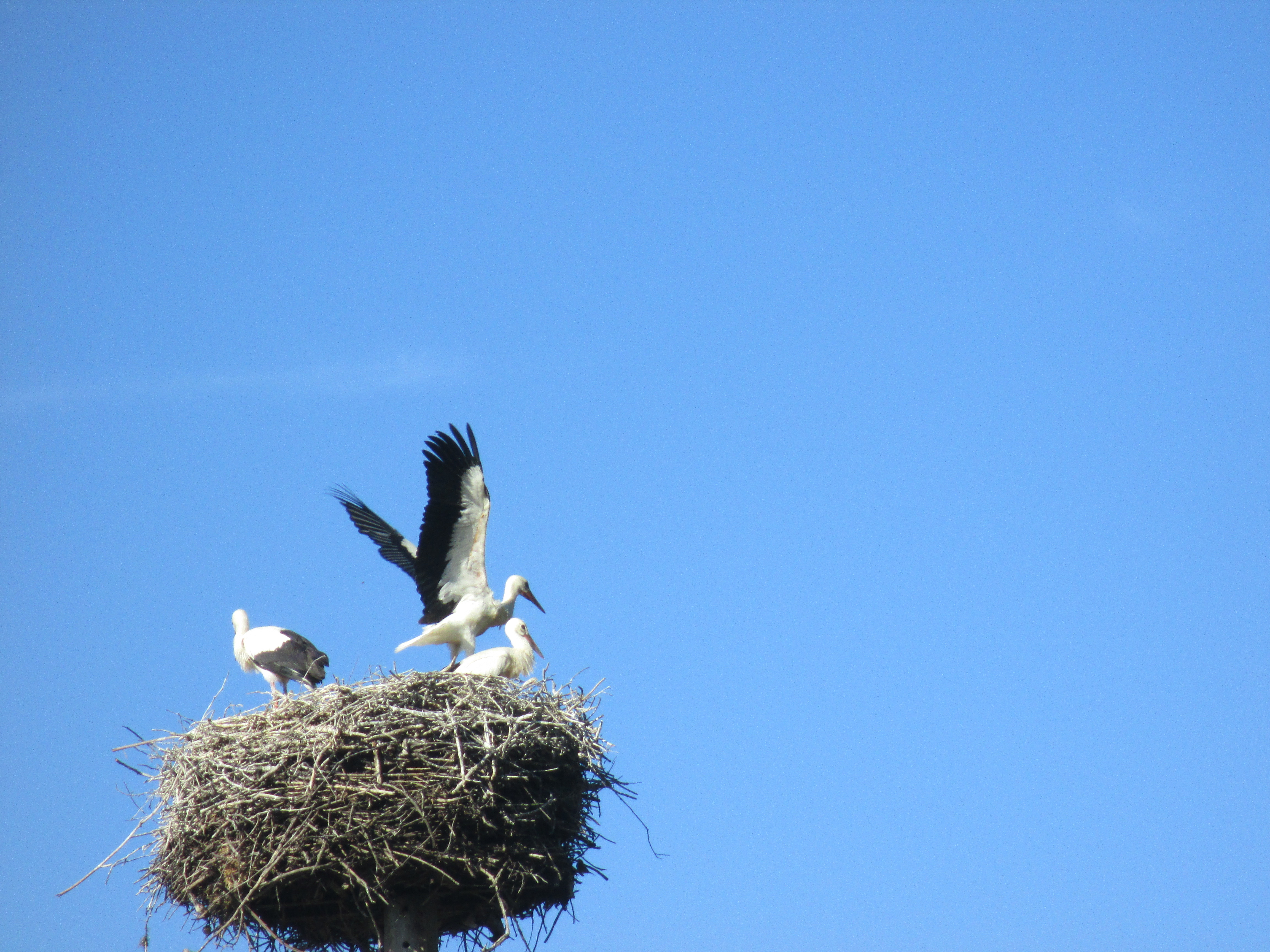 Stork-family